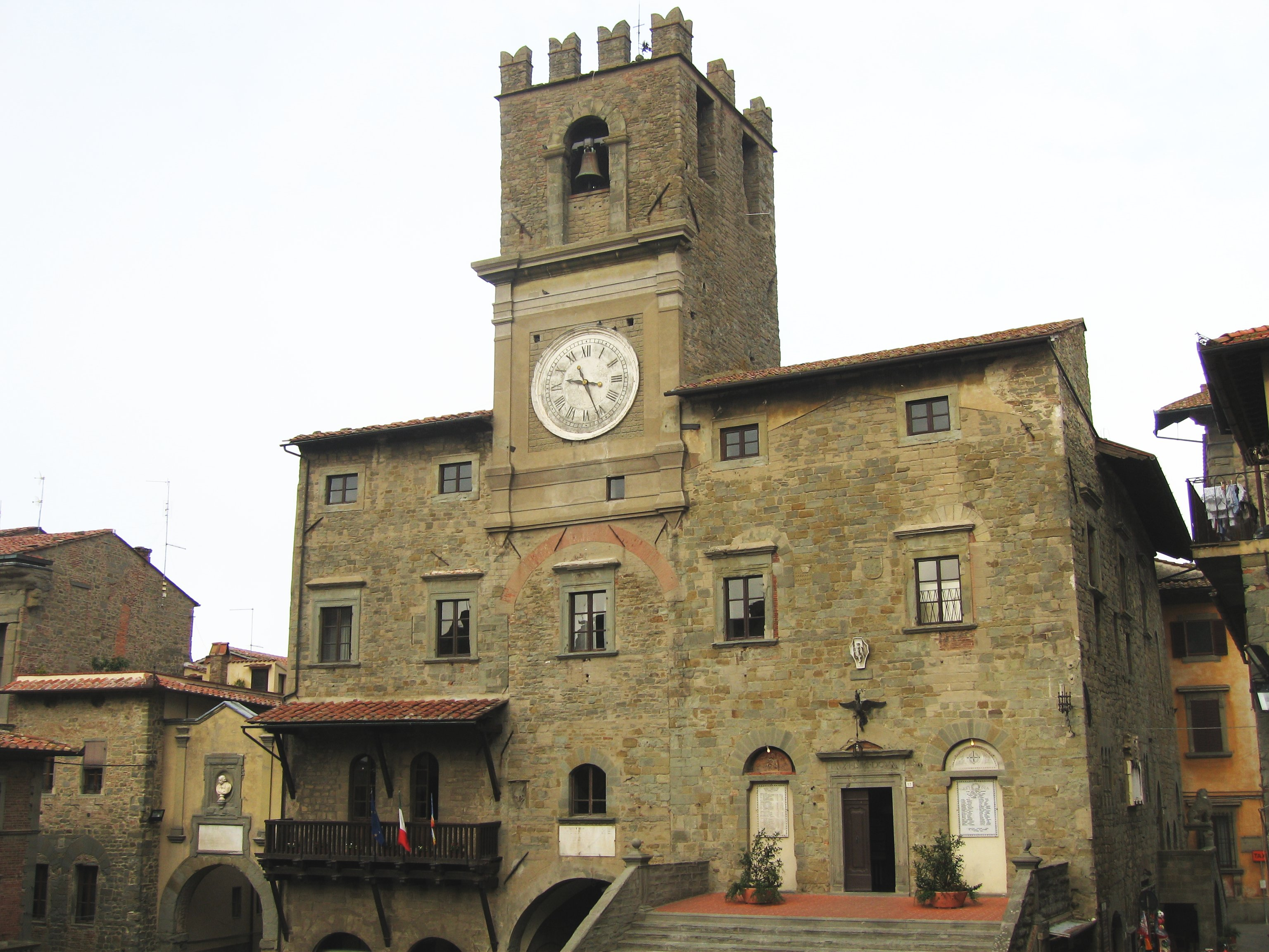 Cortona, Toscana, Italy.